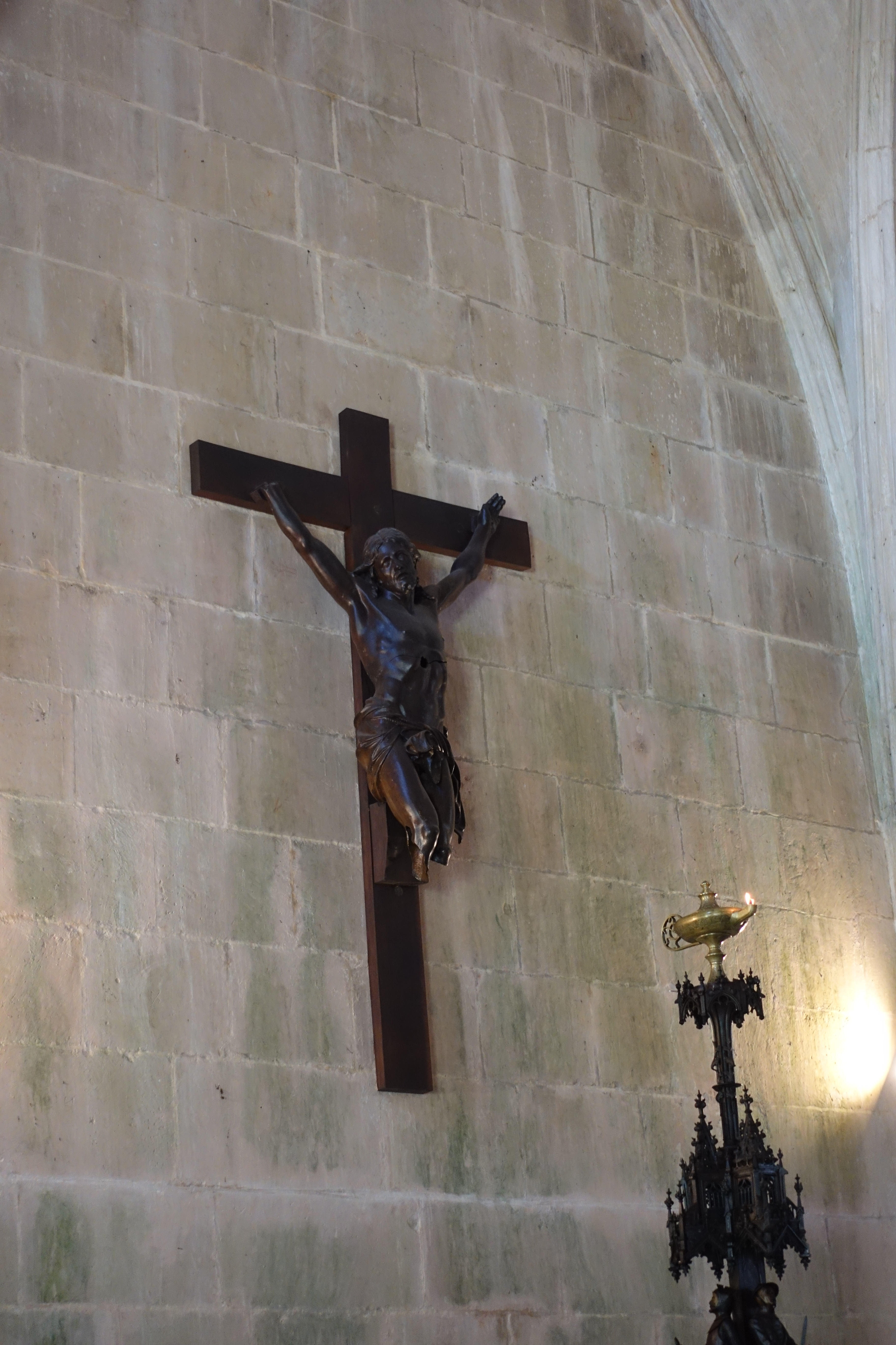 Cristo das Trincheiras, Mosteiro da Batalha, Portugal.